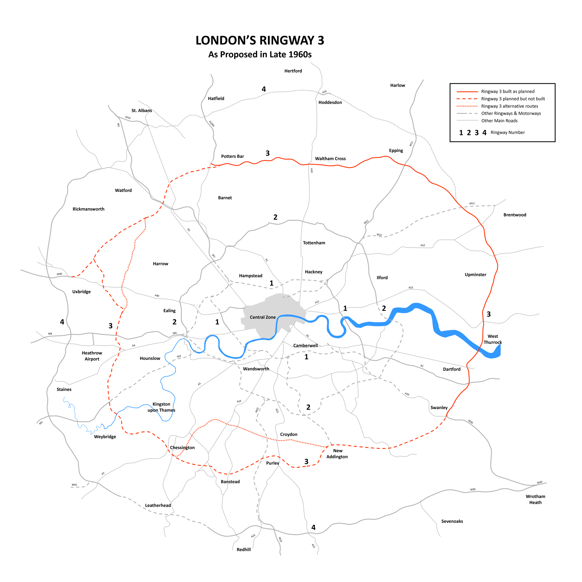 London Ringway 3 Plan from the late 1960s showing roads planned for Ringway 3, indicating those sections of road that were built (becoming part of the M25 motorway) and those sections not built. --DavidCane 15:32, 4 February 2007 (UTC) Updated to shown alternate route through south London in red. --DavidCane 16:08, 4 February 2007 (UTC)